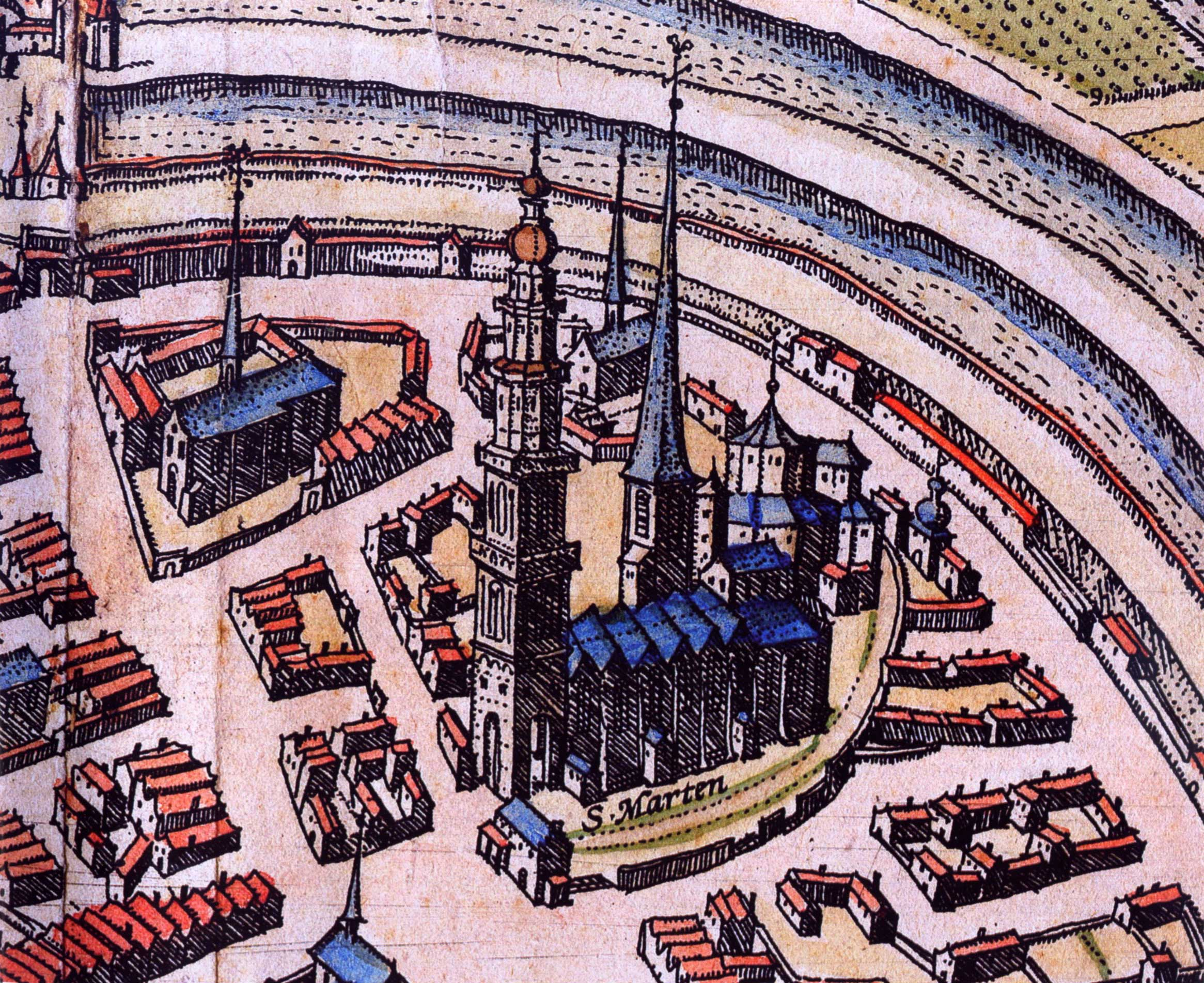 Detail of a map of Groningen from the cityatlas by Georg Braun and Frans Hogenberg 1575 with e.g. Martinichurch, Fraterhuis and Sint-Walburgchurch